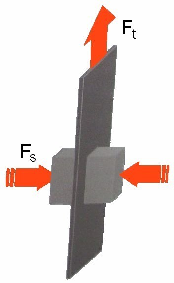 Schematic diagram of forces acting on a specimen placed in a tribometer. Fs = squeeze force. Ft = traction force.